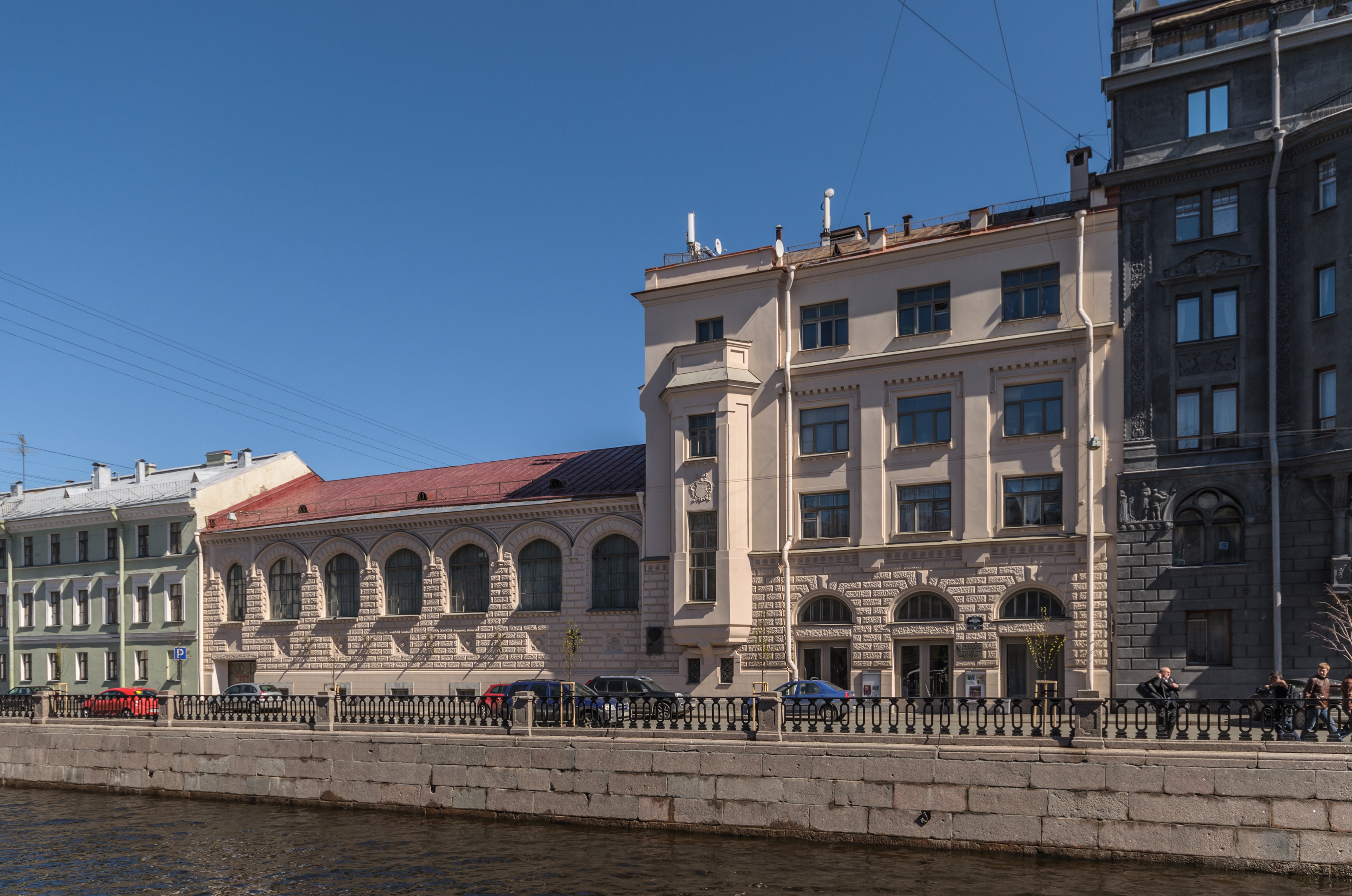 Senator Polovtsov's House (Documentary film studio) on Krukov Channel in Saint Petersburg